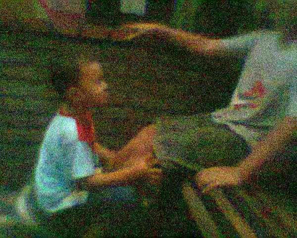 ucang ucang angge